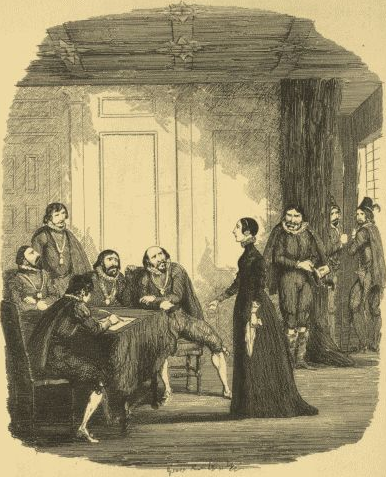 Viviana examined by the Earl of Salisbury, and the Privy Council in the Star Chamber. Made by George Cruikshank (1792-1878).